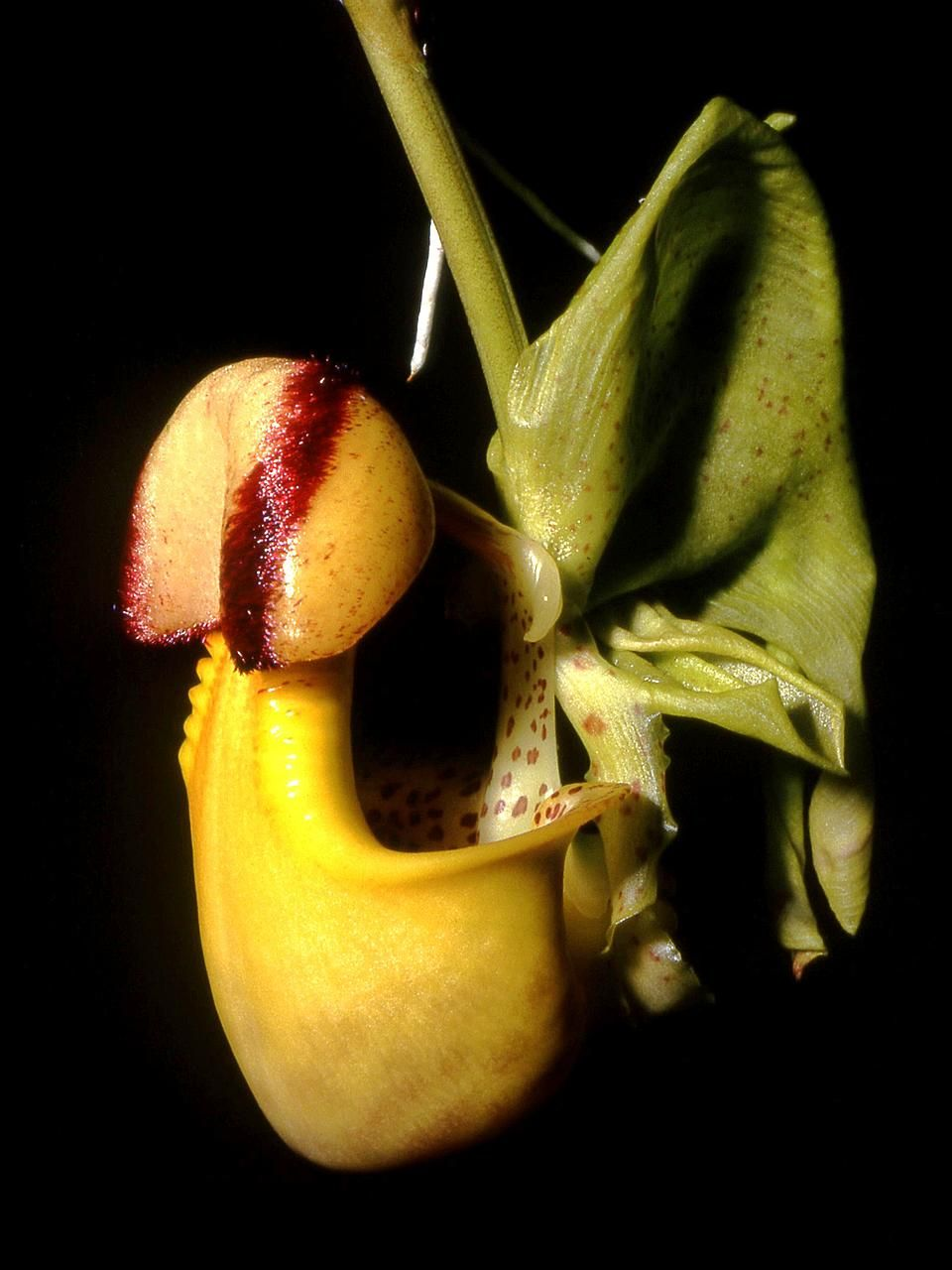 Coryanthes macrantha - flower